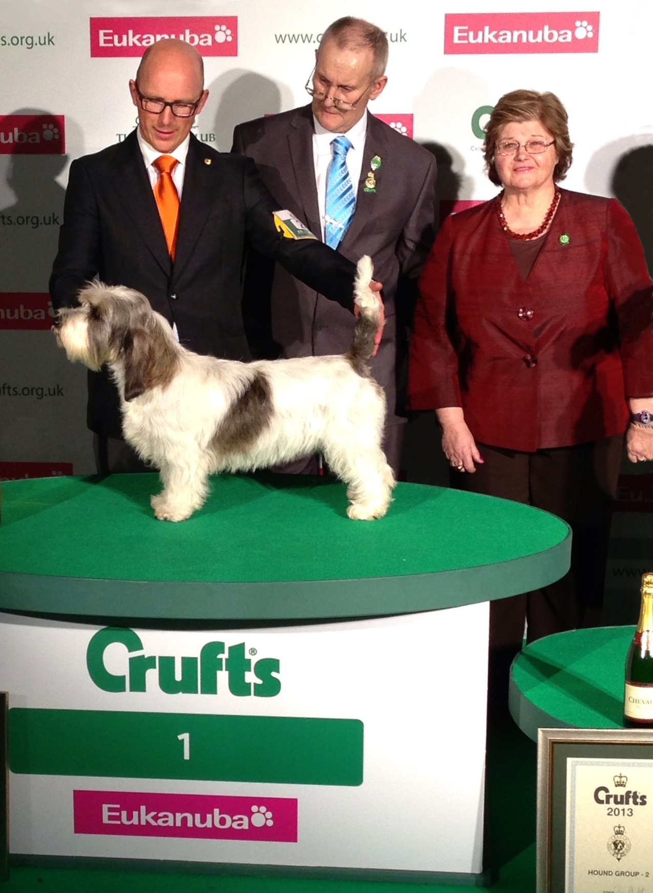 Hound group winner at Crufts 2013, PBGV, Soletrader Peek A Boo, Jilly, Gavin Robertson (handler), Ben Reynolds-Frost (group judge) and Carla Mollinari, President of Portuguese KC